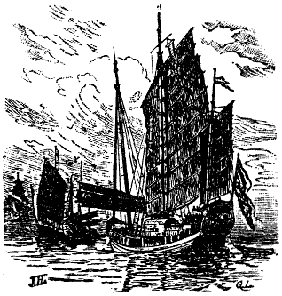 Junk, a Chinese sailing vessel